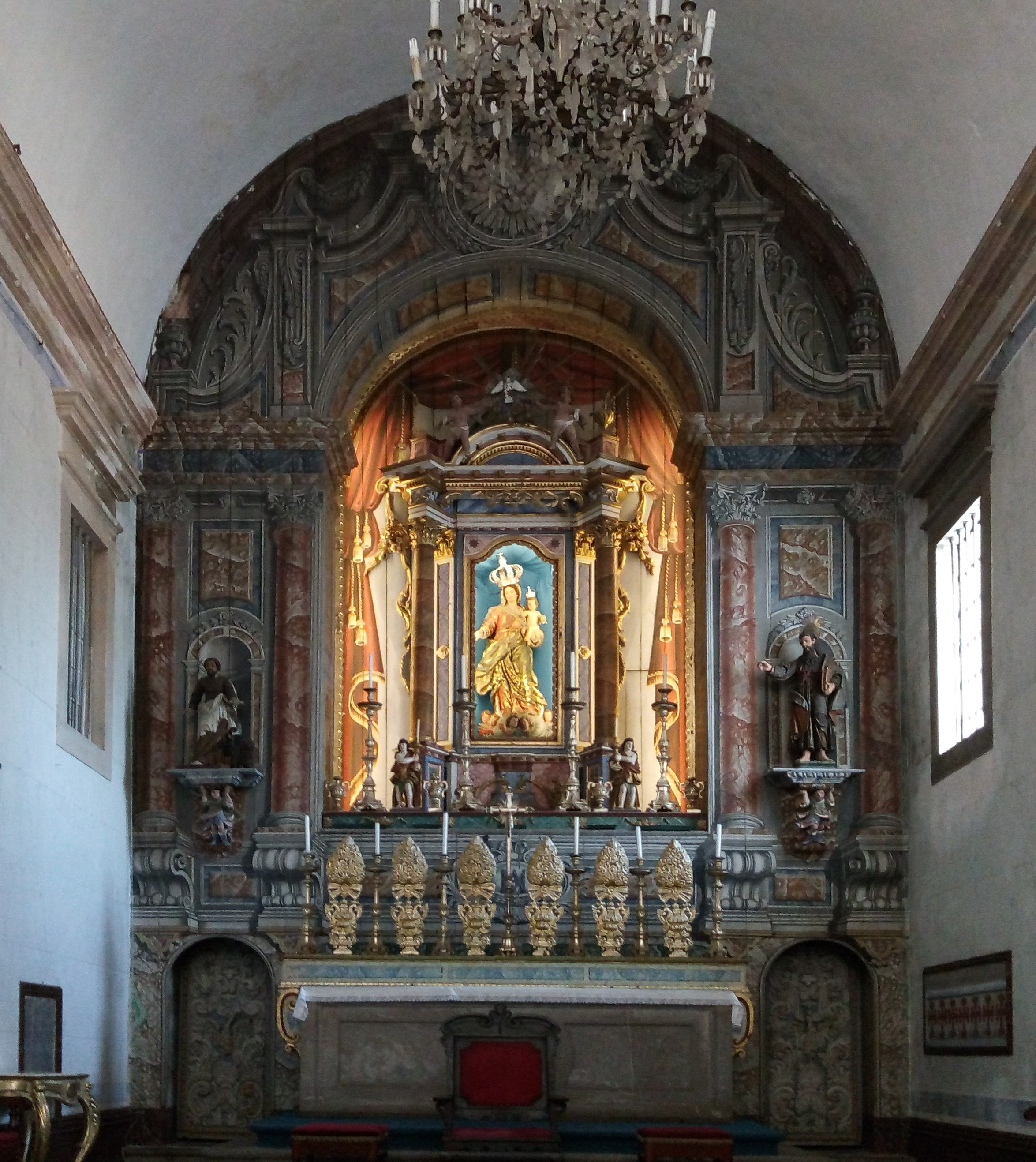 Main altar of the Church of Holy Mary in Tavira, Portugal. The tombs of the seven martyr knights are visible on the lower right corner.